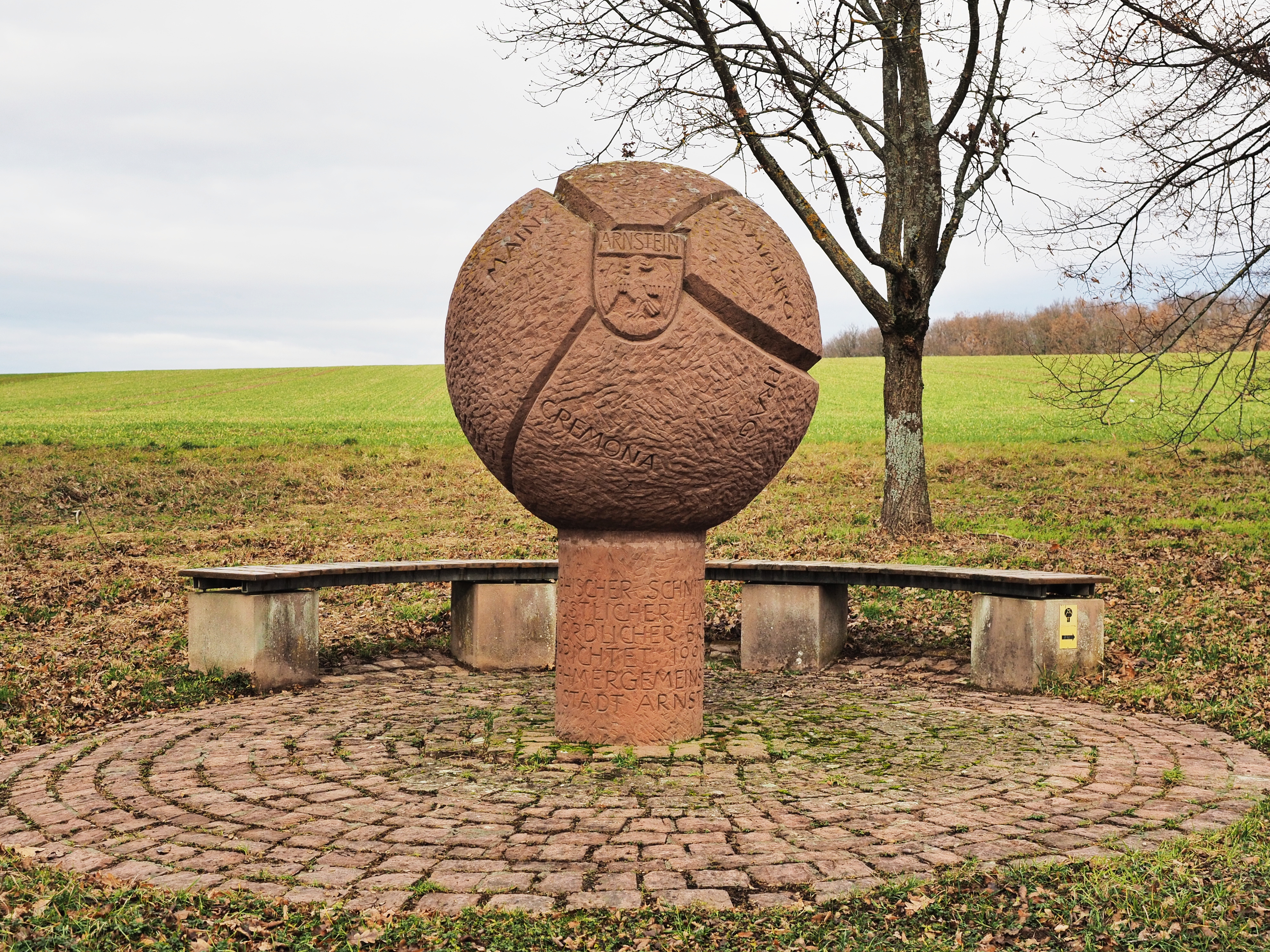 Marker near the degree confluence of 50° North, 10° East. The actual degree confluence is located approx. 200 metres to the north amidst a field.